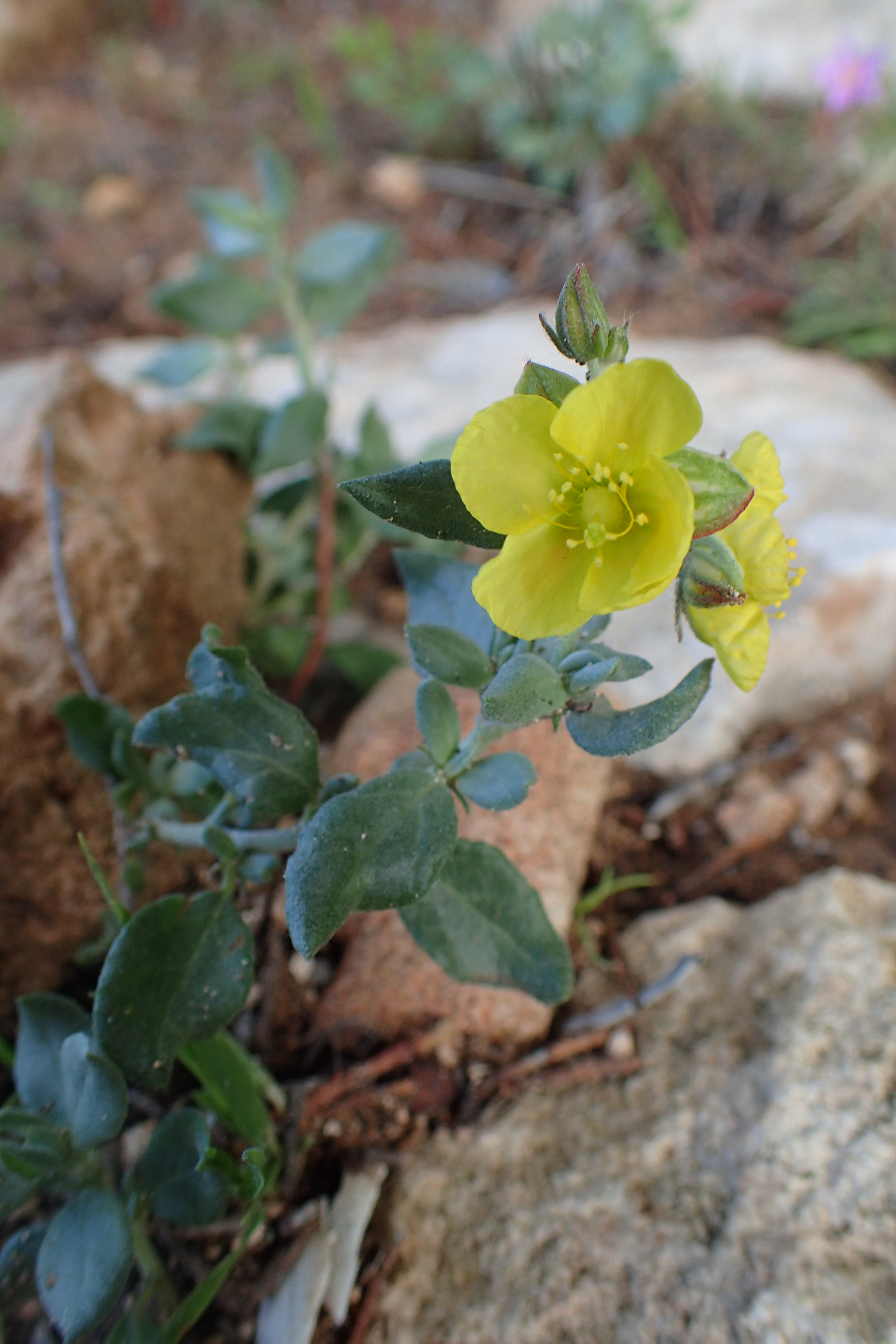 Helianthemum canariense in Essaouria (Marrakesh-Safi, Morocco)